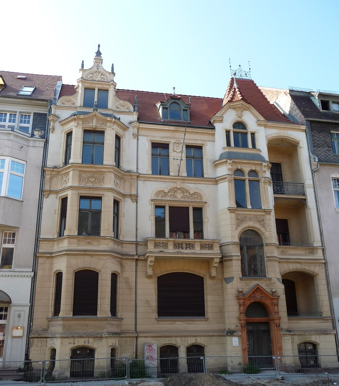 Bahnhofstr. 50 in Cottbus